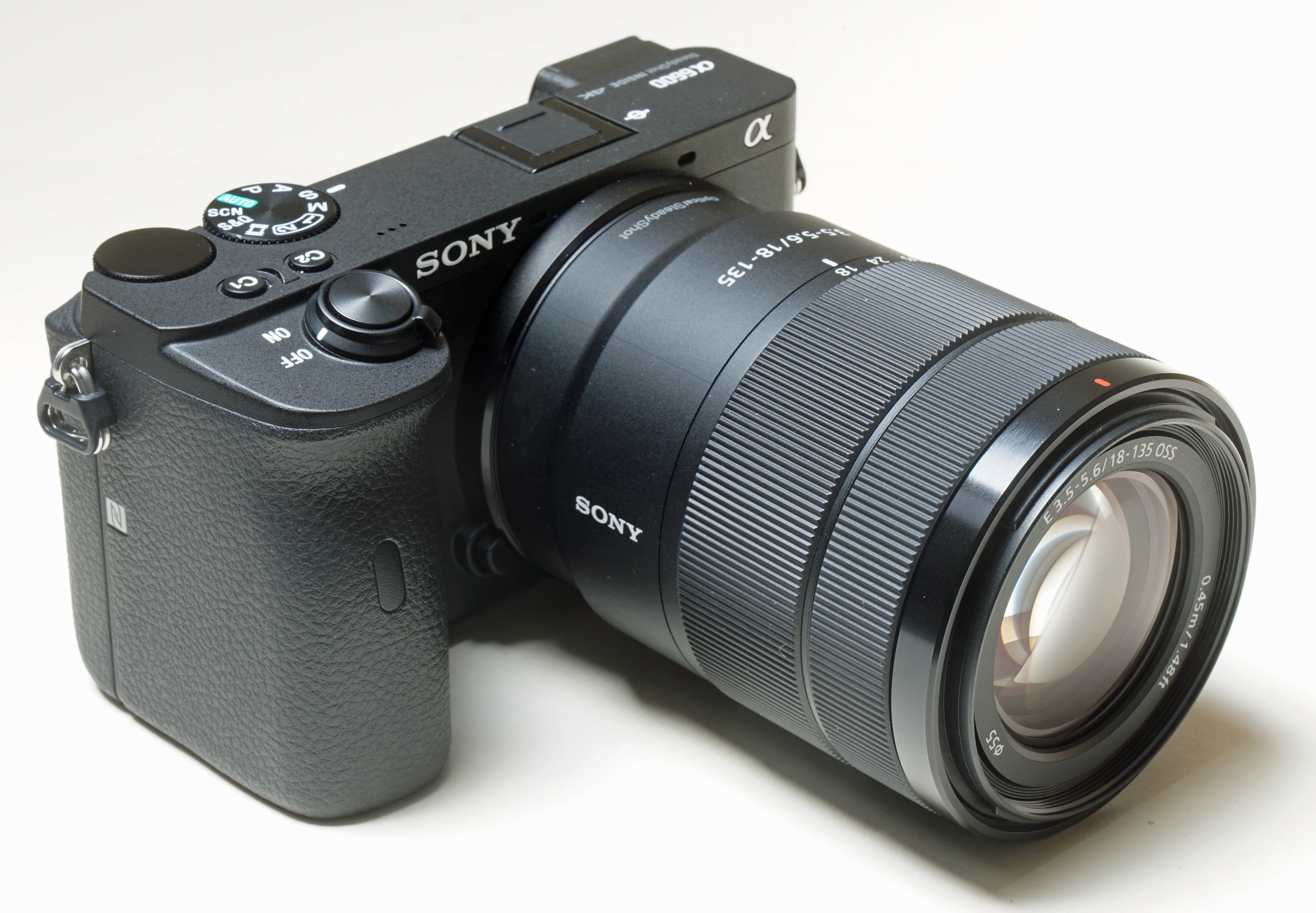 Sony Alpha ILCE-6600 with kit lense 18-135 mm.